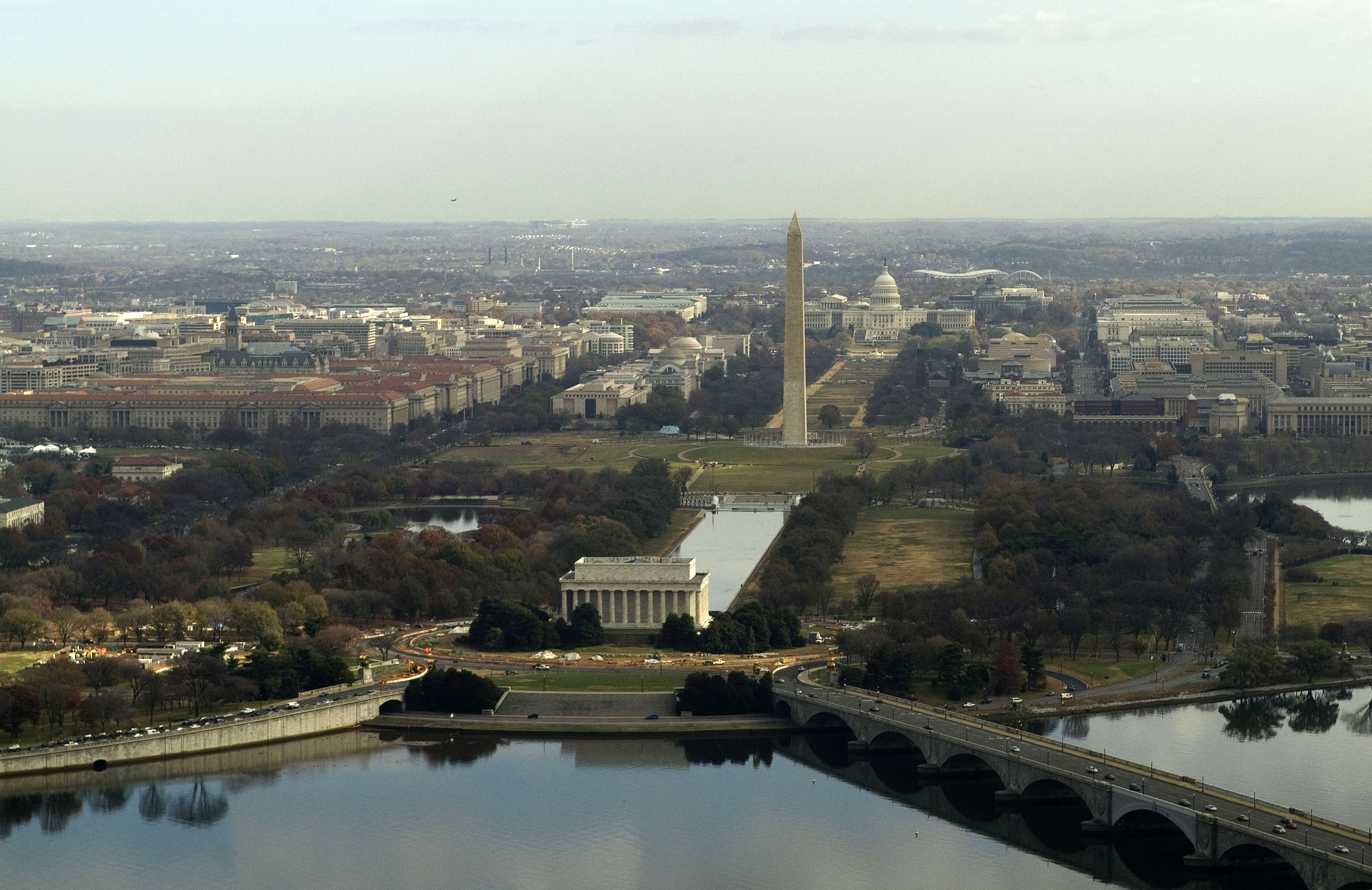 An aerial view of the National Mall in Washington, D.C., showing the Lincoln Memorial at the bottom, the Washington Monument at center, and the U.S. Capitol at the top.